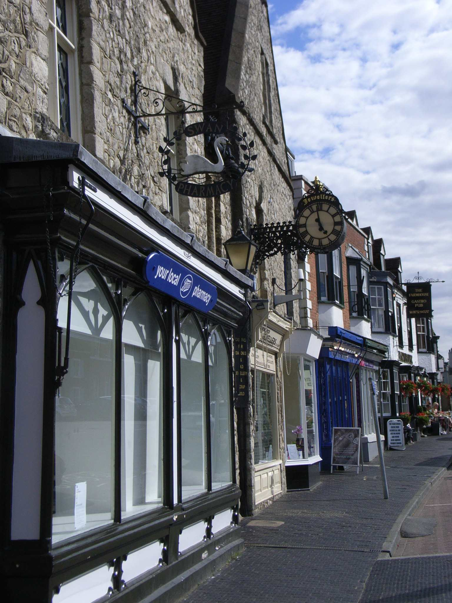 West Malling High Street